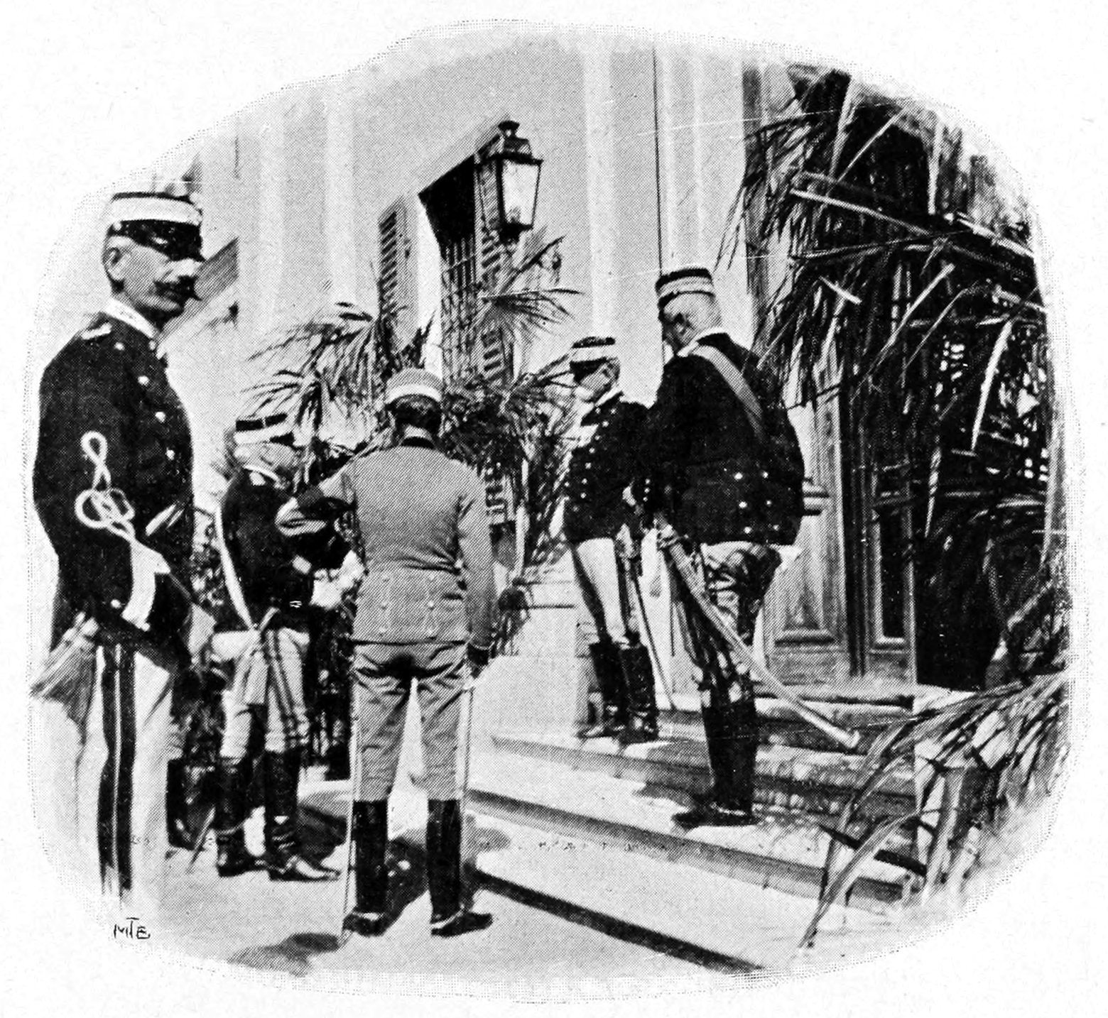 Image from book: Leopoldo Pullè, Patria Esercito Re, Ulrico Hoepli, Milan, 1908.